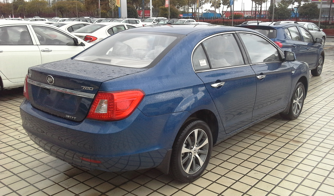 Lifan 720 photographed in Shanghai, China.